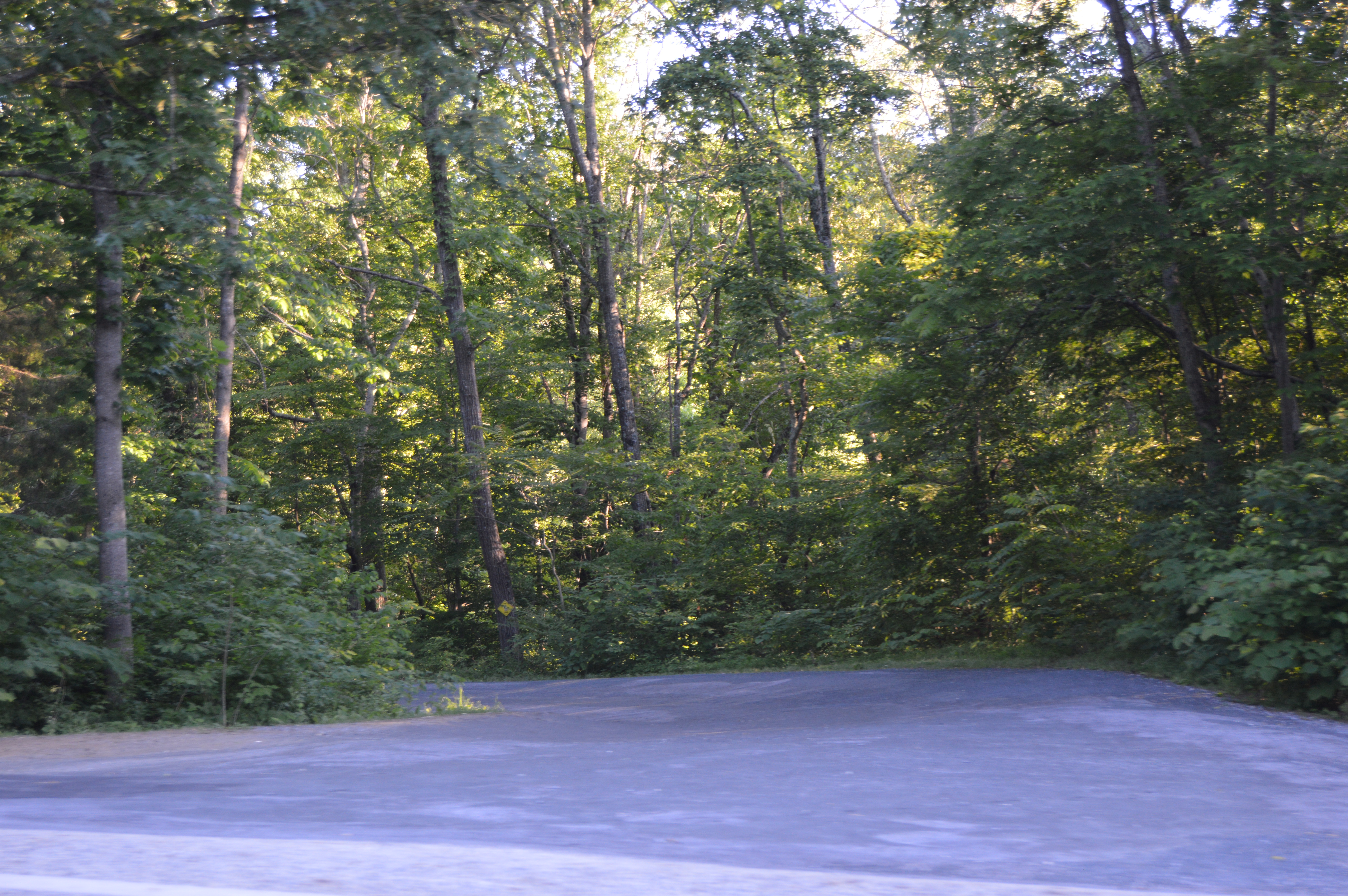 Driveway to the Hanshill property, located on State Route 130 northwest of Madison Heights in Amherst County, Virginia, United States. The property is listed on the National Register of Historic Places.